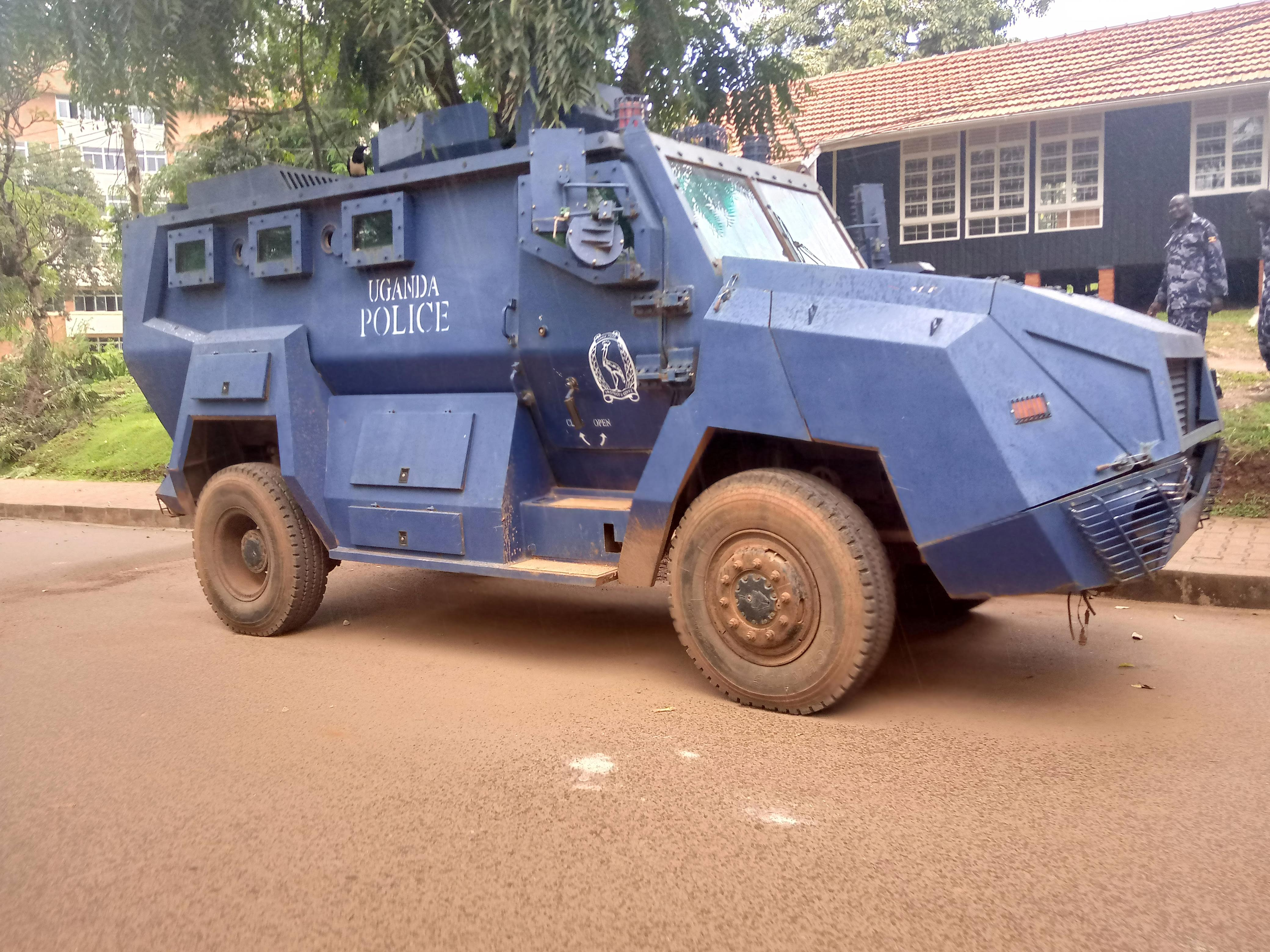 An armored car used by the police in Uganda This is an image with the theme "Africa on the Move or Transport" from: Uganda